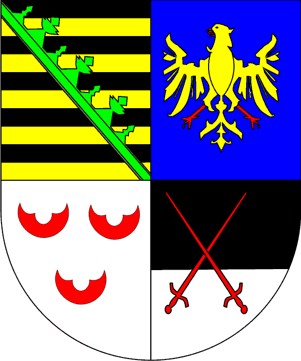 The coat of arms of Duchy of Saxony, Angria and Westphalia (Lauenburg) as used between 1435 and 1507 and again between 1671 and 1689. It shows in the upper left quarter the Ascanian barry of ten, in or and sable (starting with the wrong colour in this copy), covered by a crancelin of rhombs (they are not shown in this undetailed copy) bendwise in vert.[1] The crancelin symbolises the Saxon ducal crown. The second quarter shows in azure an eagle crowned in or (crown missing in this copy), representing the imperial Pfalzgraviate of Saxony. The third quarter displays in argent three water-lily leaves in gules, standing for the County of Brehna. The lower right fourth quarter shows in sable and argent the electoral swords (Kurschwerter) in gules, indicating the Saxon office as Imperial Arch-Marshal (German:Erzmarschall, Latin:Archimarescallus), pertaining to the Saxon privilege as prince-elector, besides the right to elect a new emperor after the decease of the former. The Lauenburg branch duchy adopted this coat-of-arms, used before by the other brach duchy Saxe-Wittenberg until its extinction in 1422, in order to enforce its failed claim to succession in Saxe-Wittenberg. Thus the different quarters of the coat of arms, from then on representing the Duchy of Saxony, Angria and Westphalia (Lauenburg), were later often misinterpreted as symbolising Angria (Brehna's water-lily leaves) and Westphalia (the comital palatine Saxon eagle).